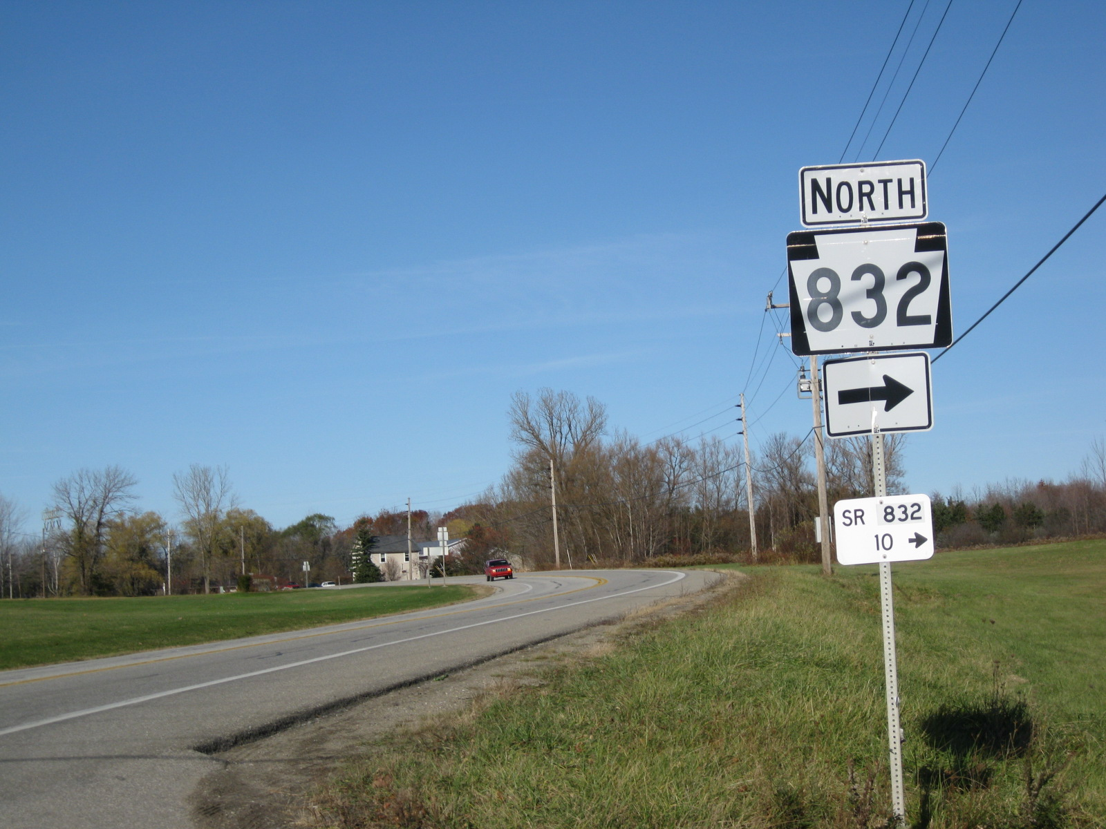 Pennsylvania State Route 98 at the intersection with the southern terminus of Pennsylvania State Route 832 in Fairview Township, Pennsylvania.